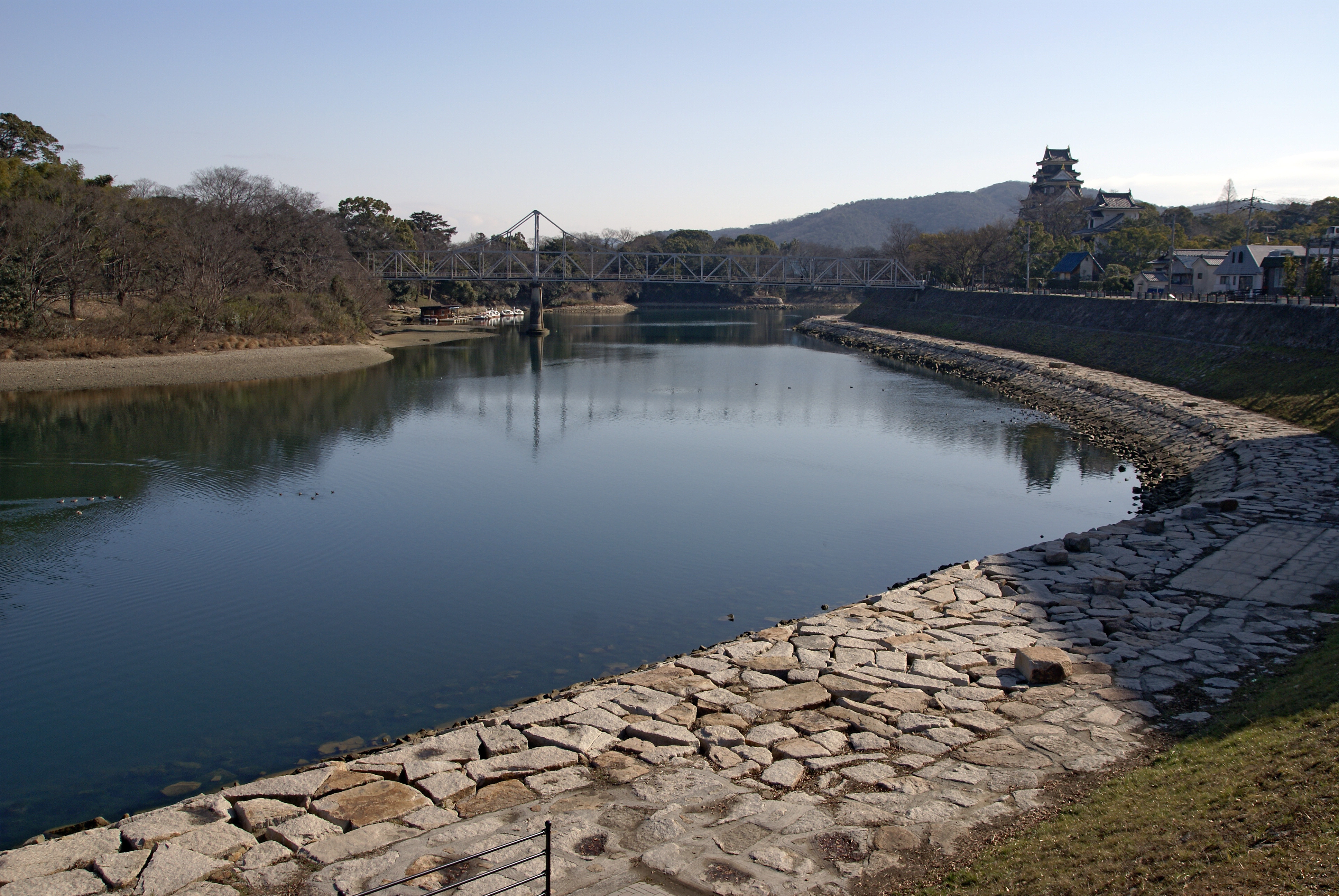 Asahi River in Okayama, Okayama prefecture, Japan